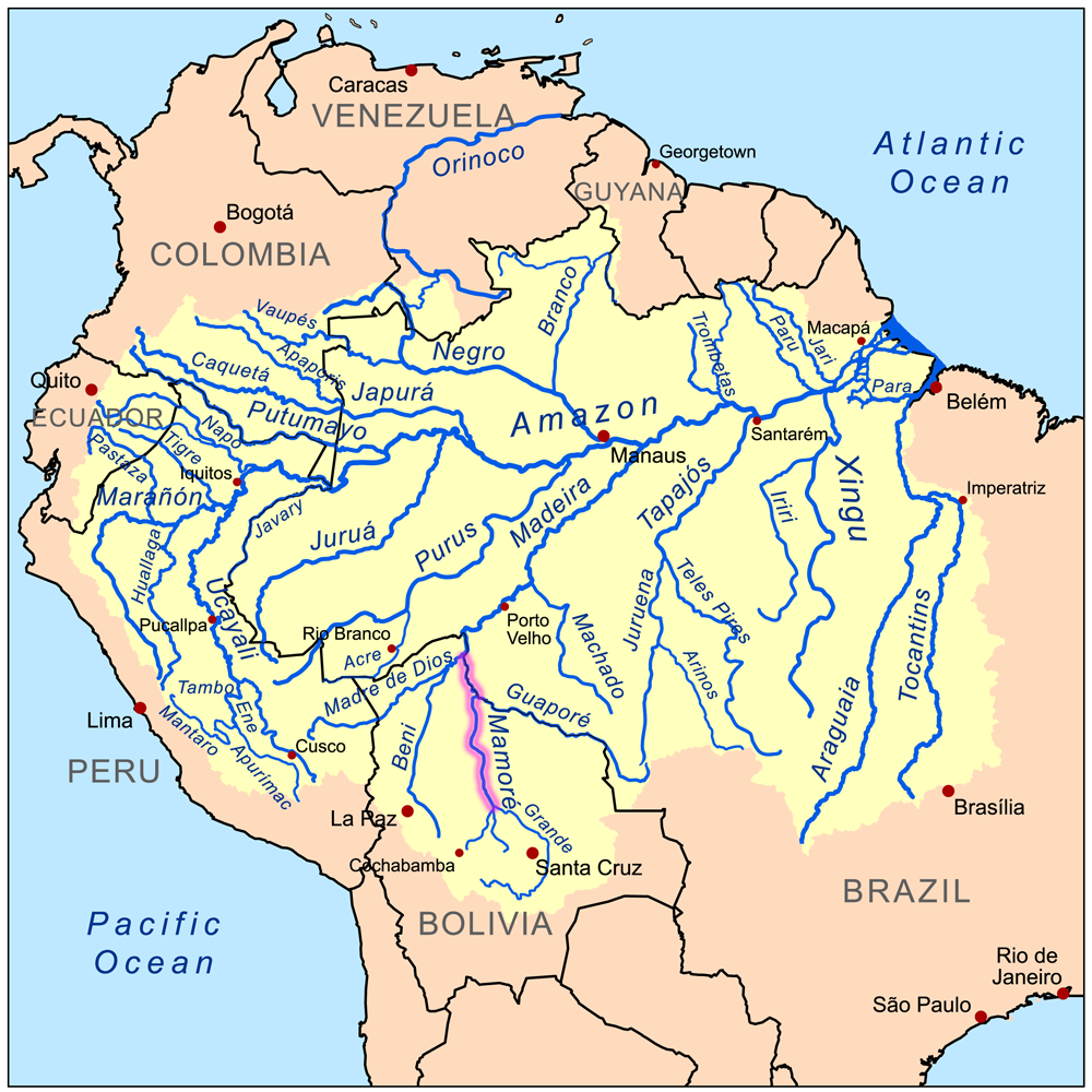 This is a map of the Amazon River drainage basin with the Mamoré River highlighted.